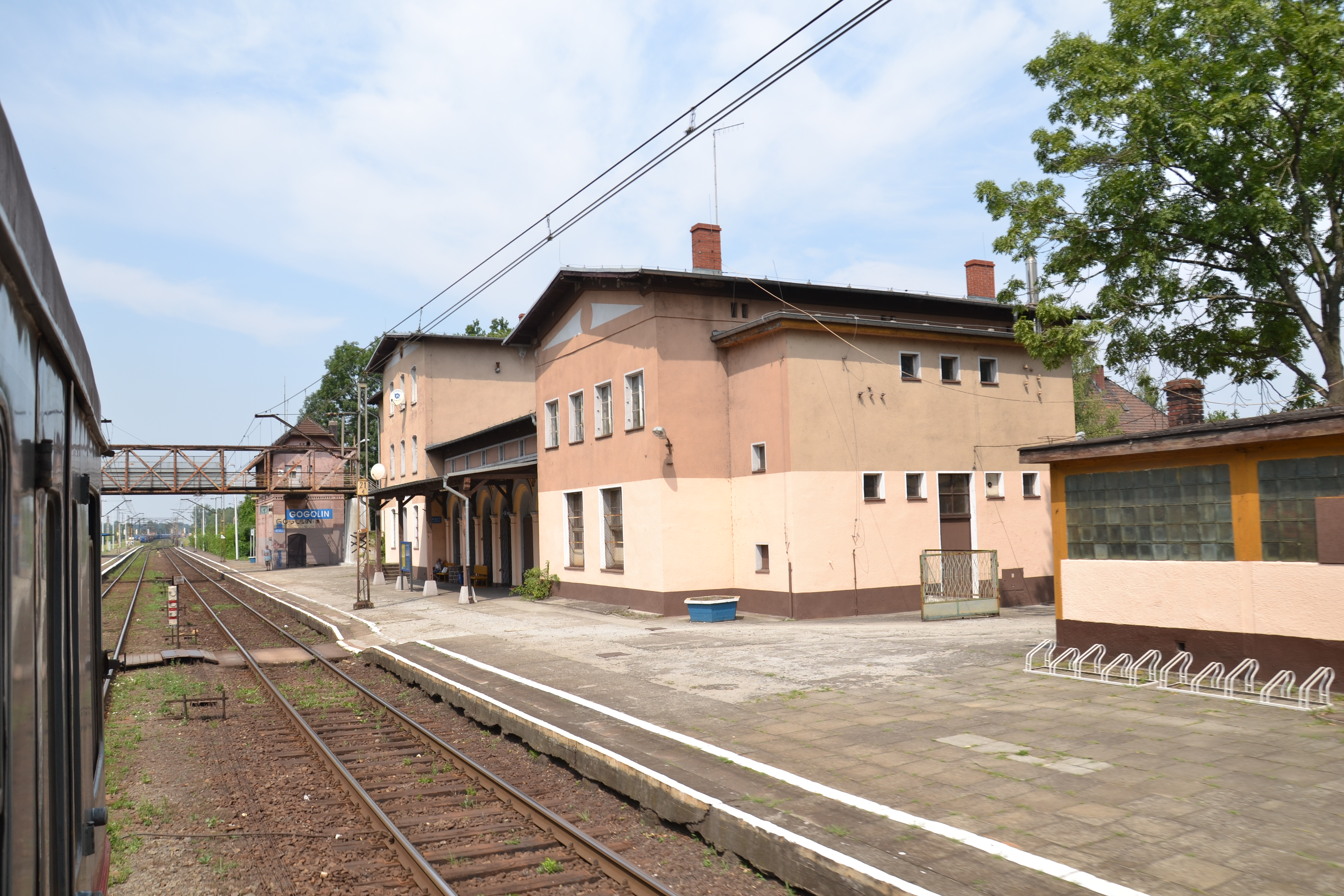 Budynek stacji Gogolin This photo was taken during Railway Wikiexpedition 2015 set up by Wikimedia Polska Association in cooperation with Fundacja Grupy PKP. You can see all photographs in category Wikiekspedycja kolejowa 2015.